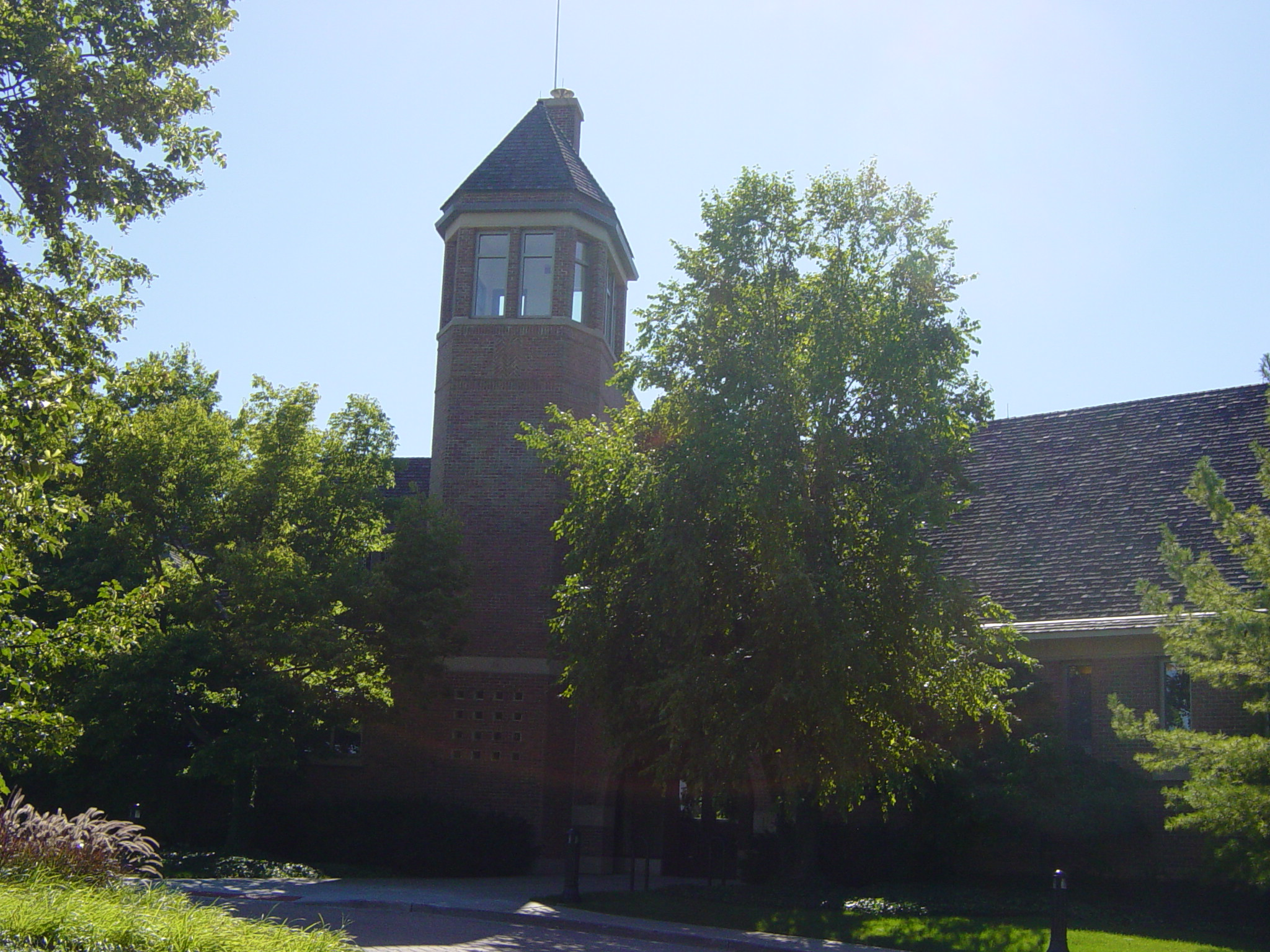 A photograph of the village hall of Lincolnshire, a community in Illinois.